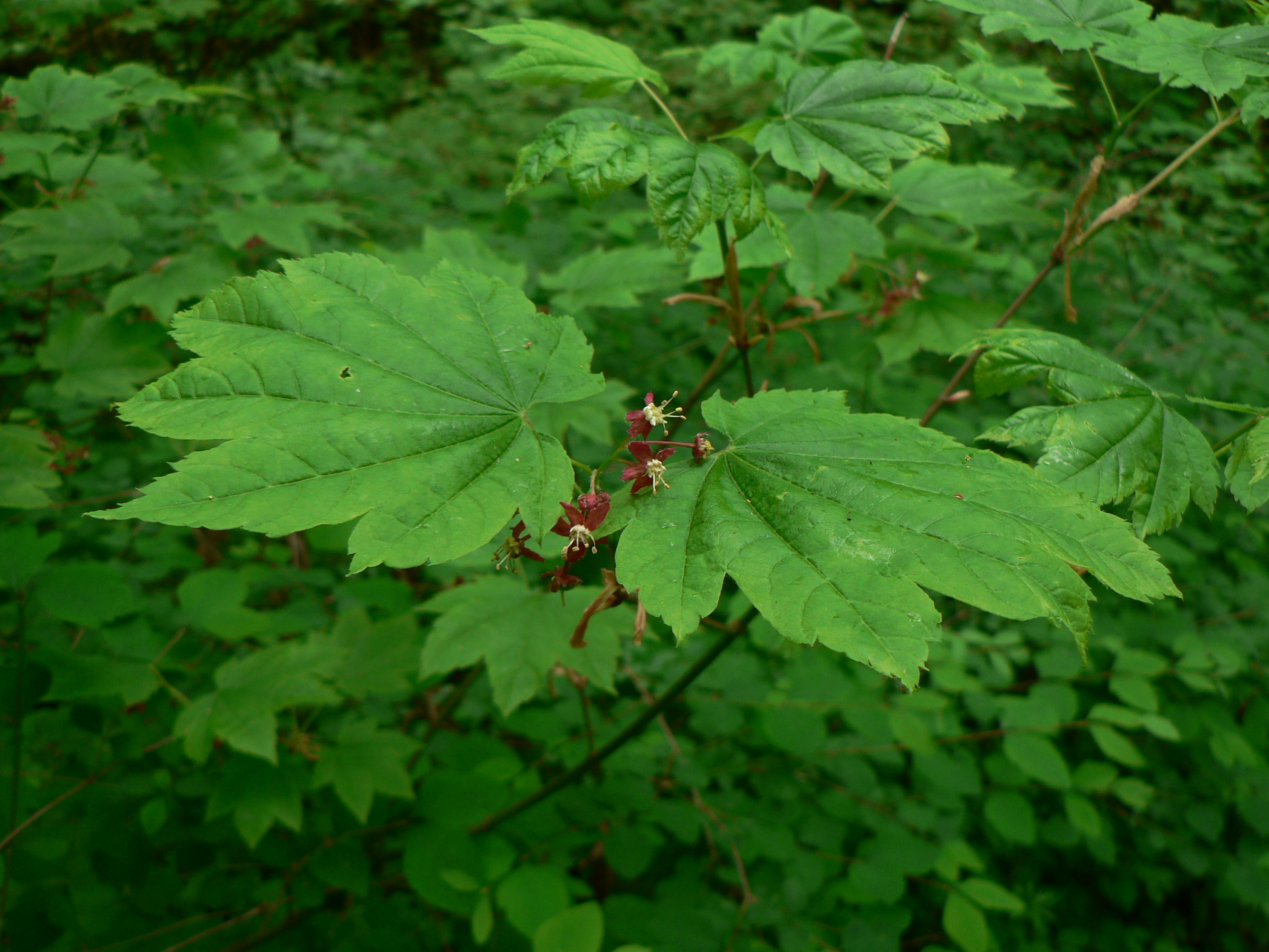 Vine Maple blossoms and leaves